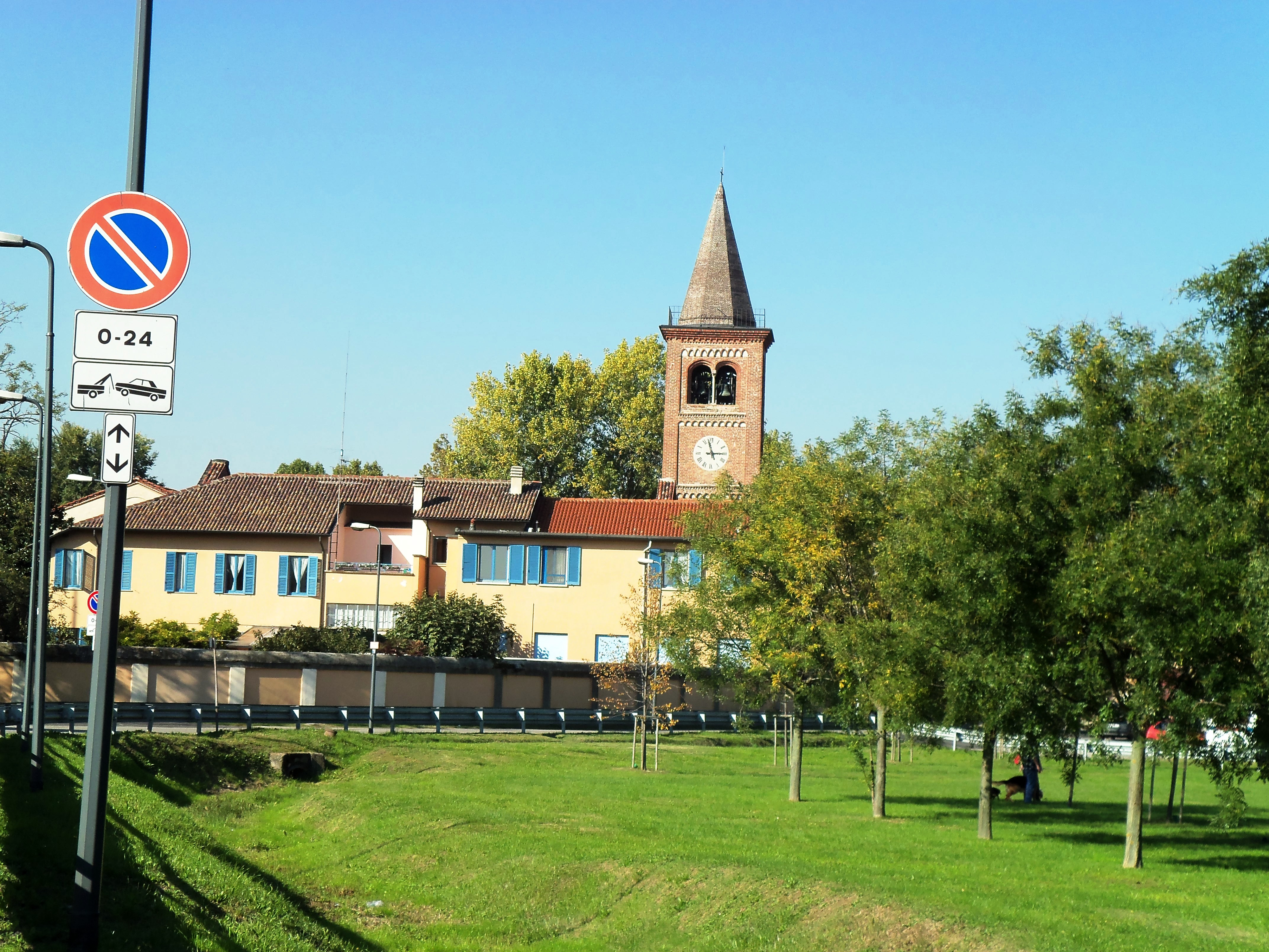 Milano, Monluè, the St. Lorenzo church